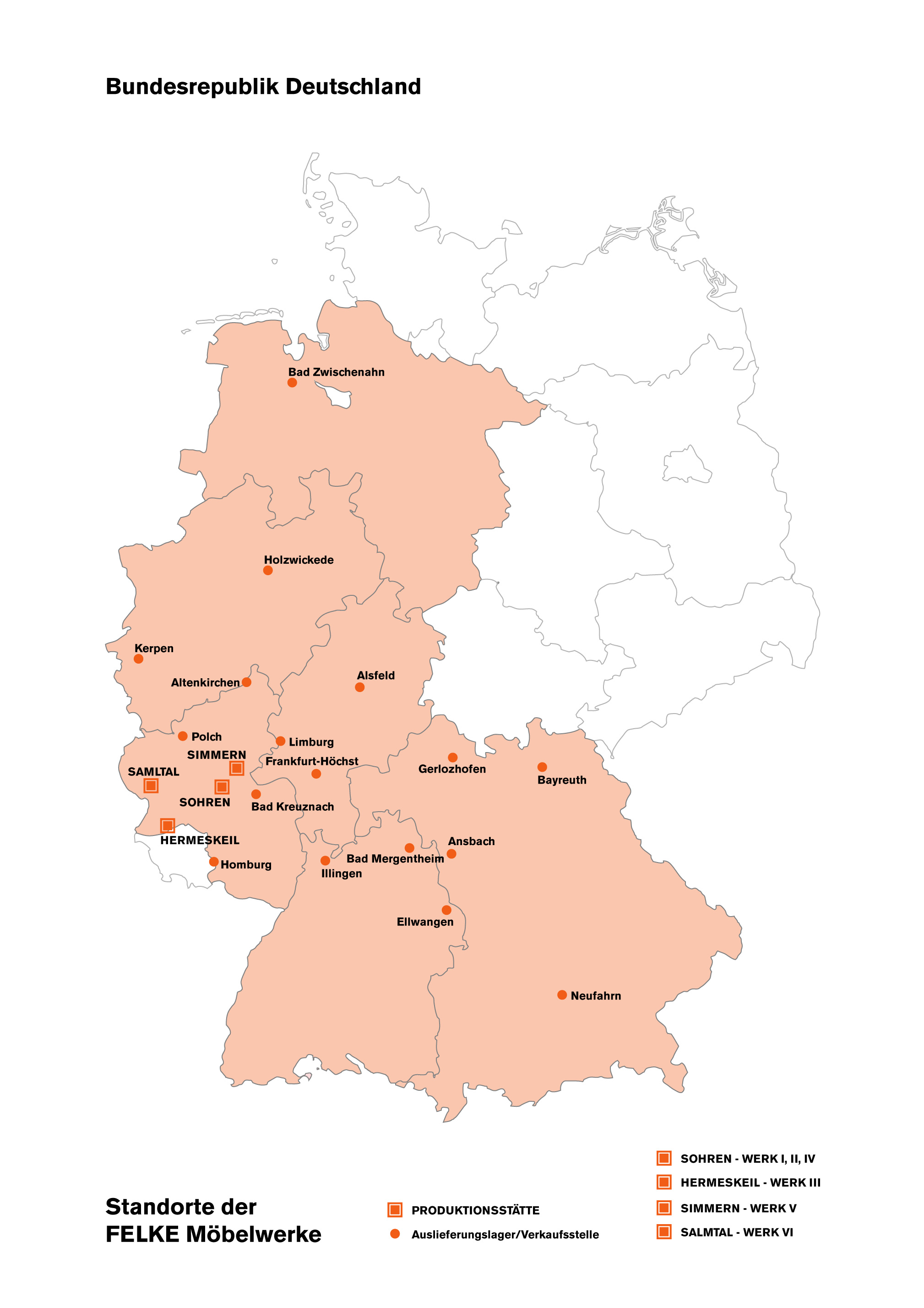 Standorte der Firma FELKE mit ihren Haupt- und Zweigniederlassungen in Deutschland